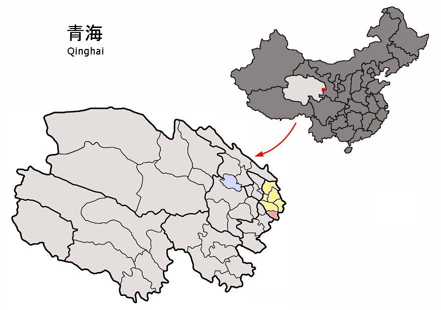 Location of Xunhua County (pink) and Haidong Prefecture (yellow) within Qinghai province of China Map drawn in september 2007 using various sources, mainly : Qinghai province administrative regions GIS data: 1:1M, County level, 1990 Qinghai Counties map from "Plateau Perspectives" (the limits of some county-level subdivisions may not be accurate)